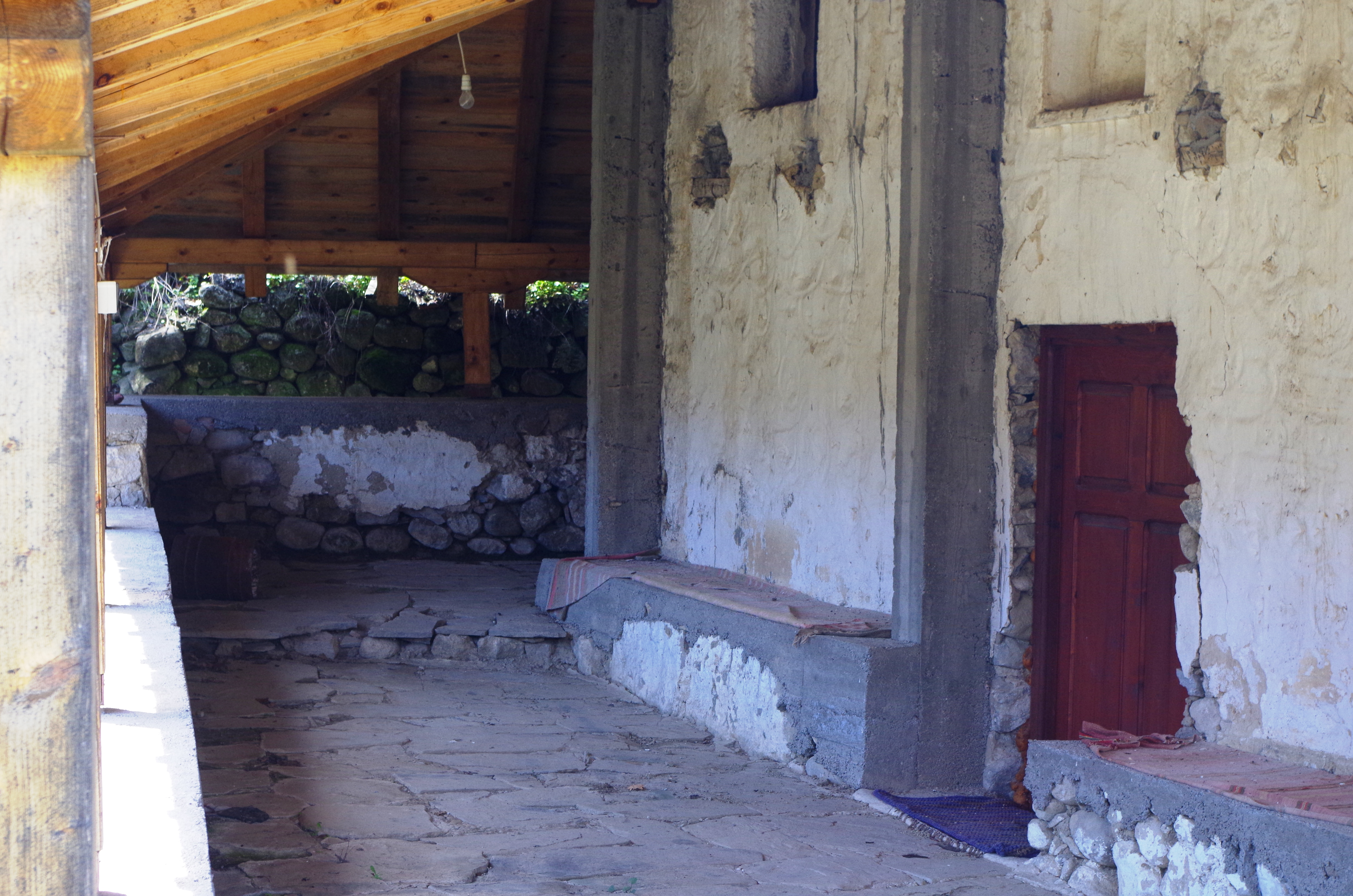 Church in the village Gorni Disan